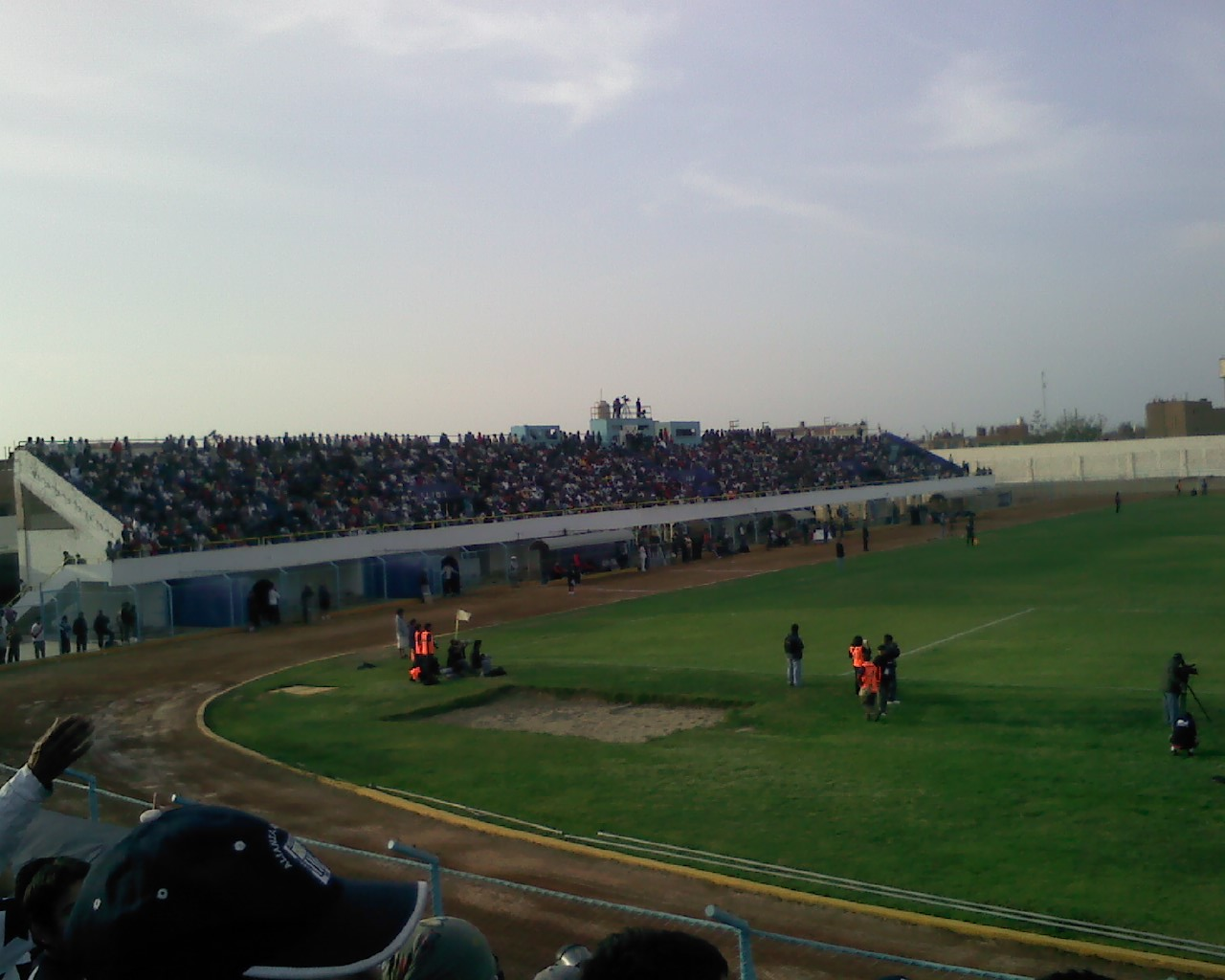 View of the Preferential Stand (west side) of the Segundo Aranda Torres Stadium, located in peruvian city of Huacho.